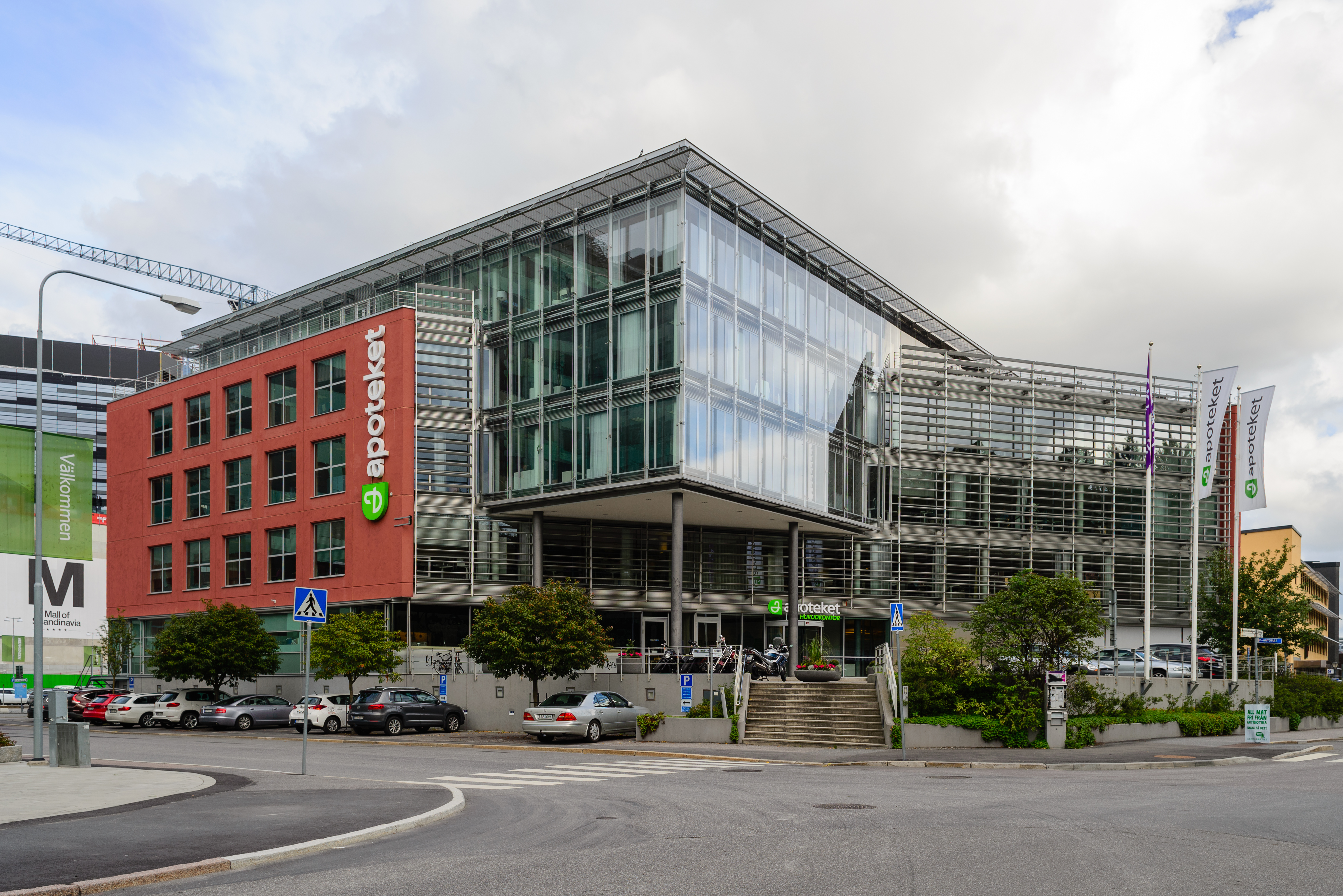 Apoteket AB new corporate headquarter in Arenastaden. Solna (Stockholm).